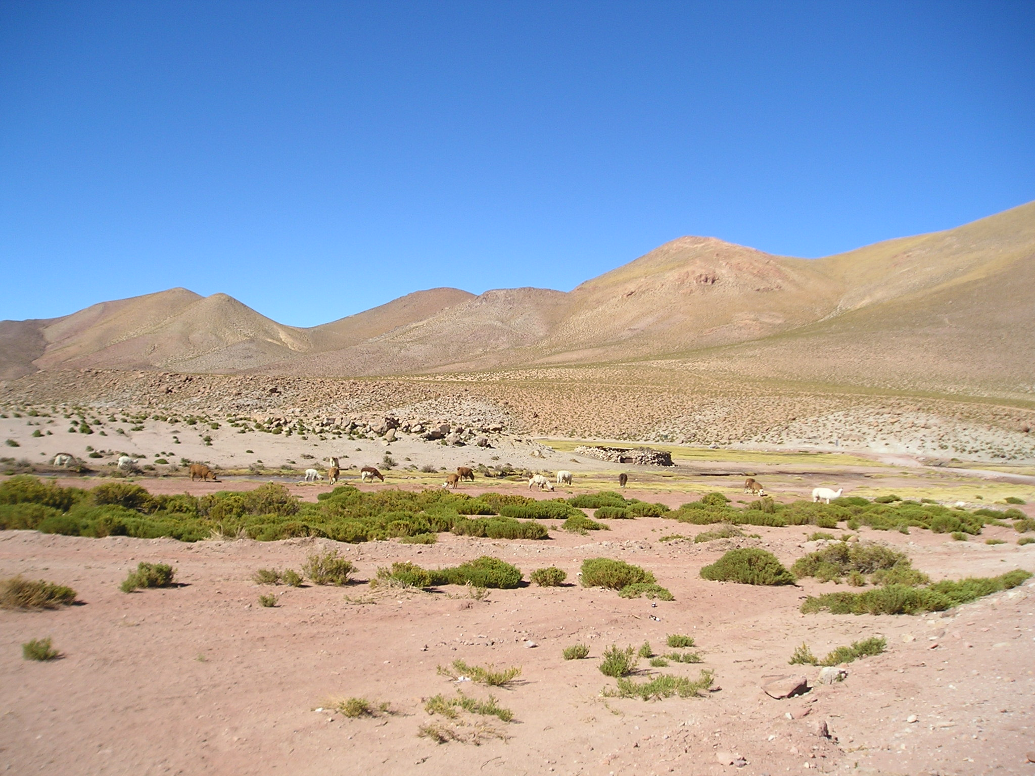 A view of lamas in Machuca, a tiny village at Chilean Altiplano near El Tatio geysers, about 100 km north of San Pedro de Atacama